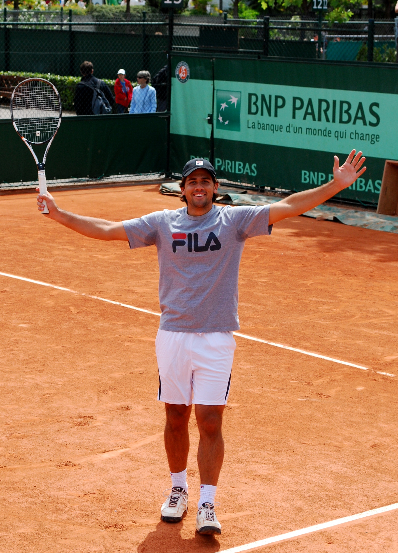 About to start a practice session with doubles partner Juan Sebastian Cabal, before their 3rd round match. Roland Garros 2011.